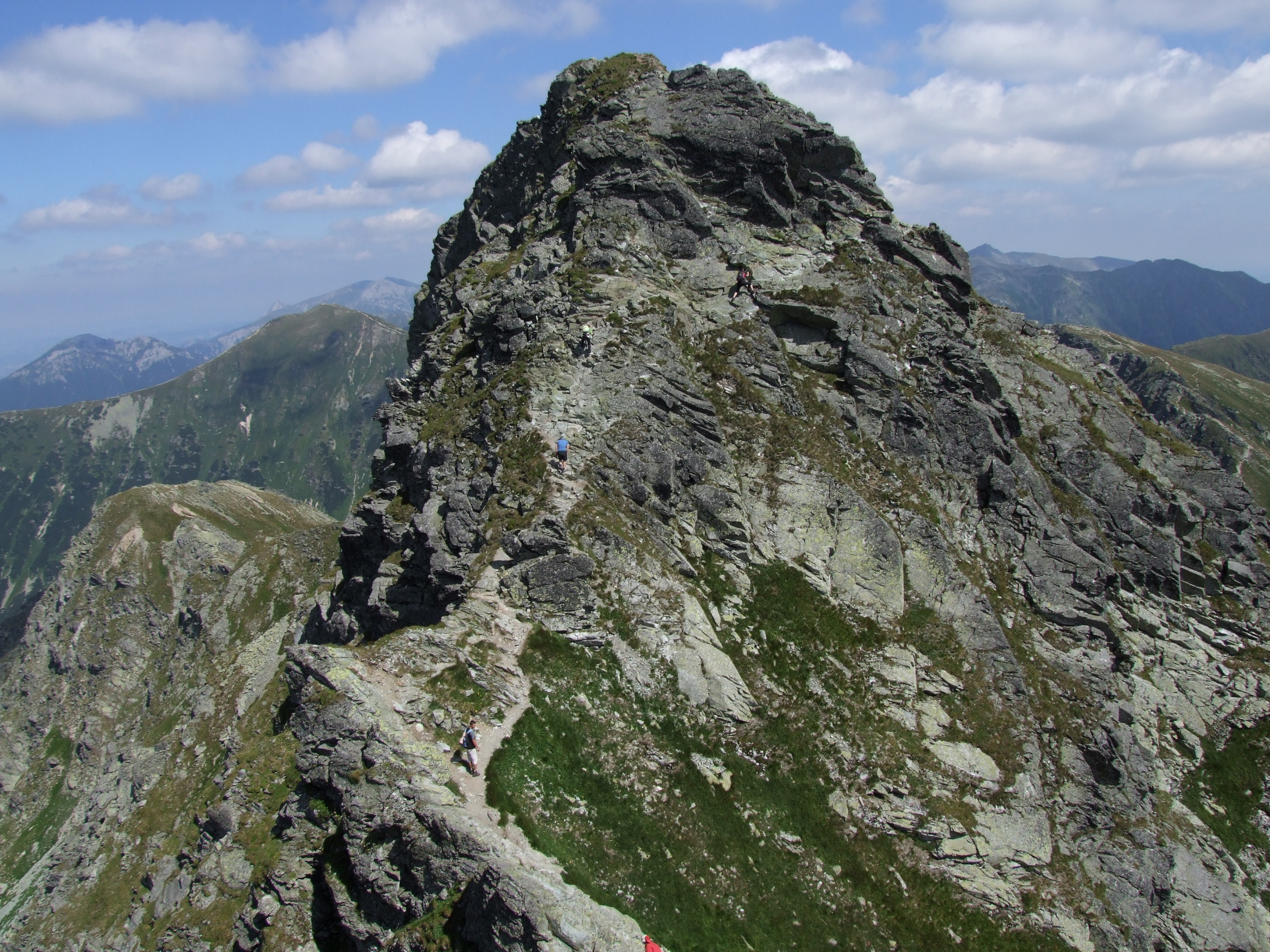 Tri Kopy (Trzy Kopy) - West Tatra Mountains